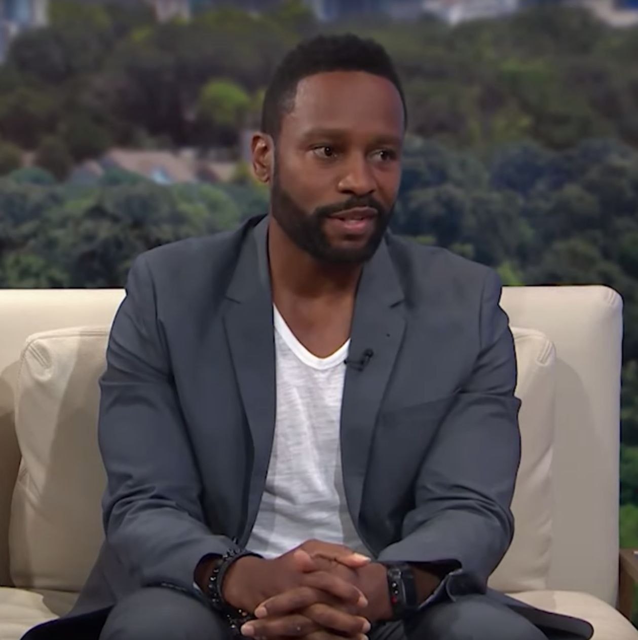 Kendrick Cross and Erica Page Talk Ambitions On OWN